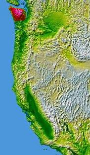 The Olympic Peninsula, in the state of Washington in the United States, is shown in red.